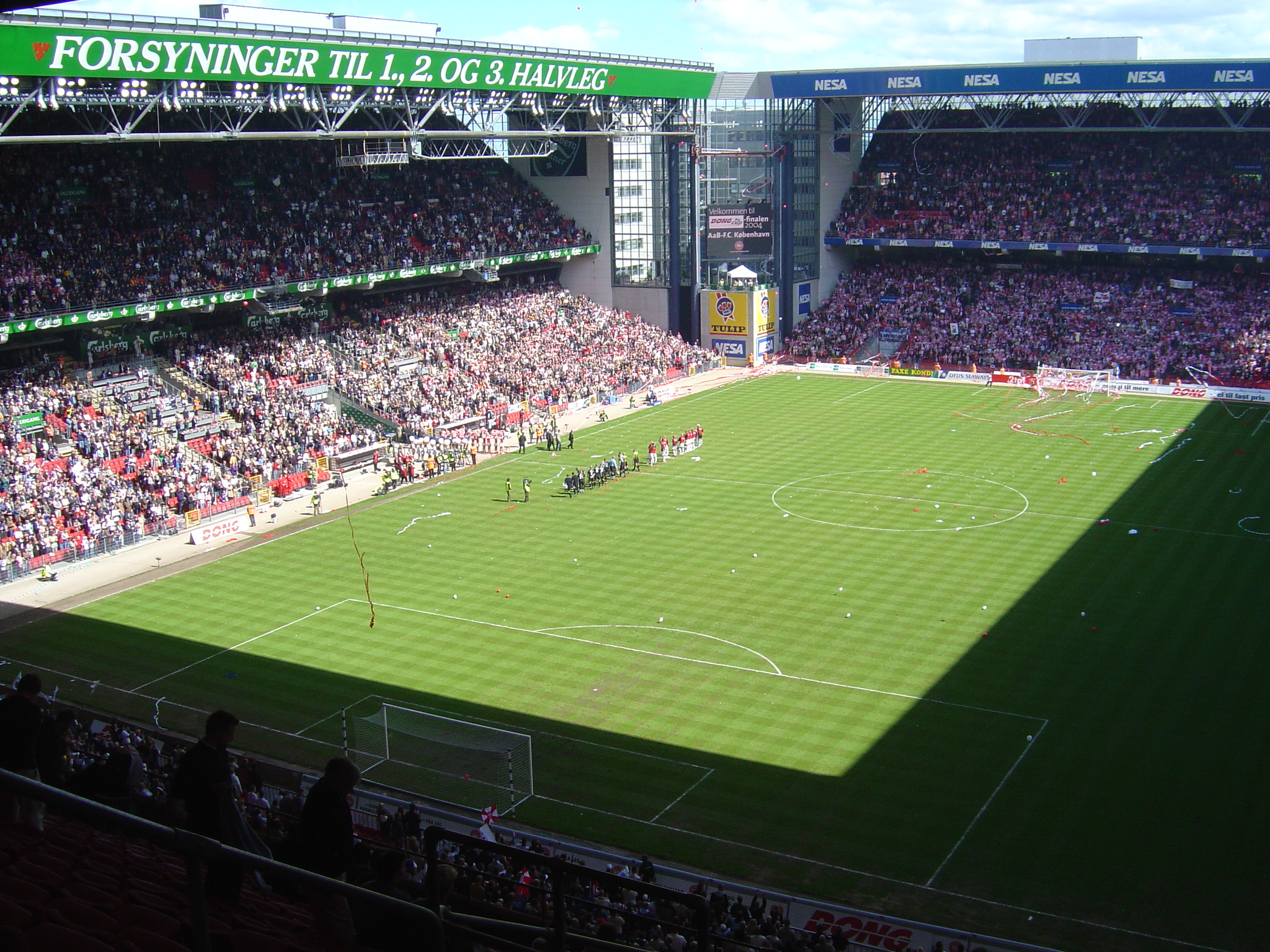 2003/04 Season Finale of Danish Cup (also known for its sponsorname DONG Cup) - seen hear a few minutes before match was scheduled to begin on 20 May 2004 at 15:00 in Parken Stadium between Copenhagen and AaB.